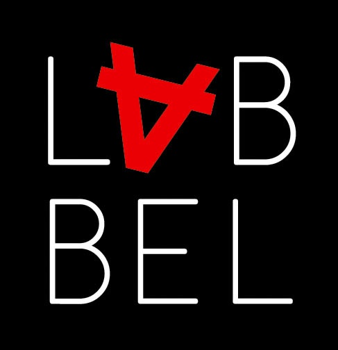 logo of the artistic laboratory of the company Bel